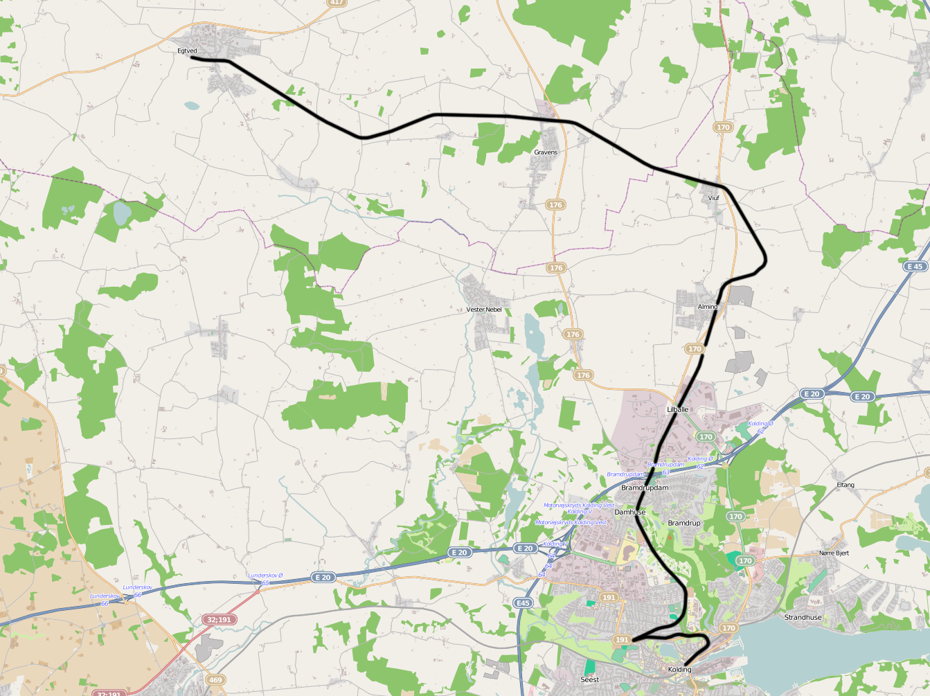 Railway line Kolding - Egtved